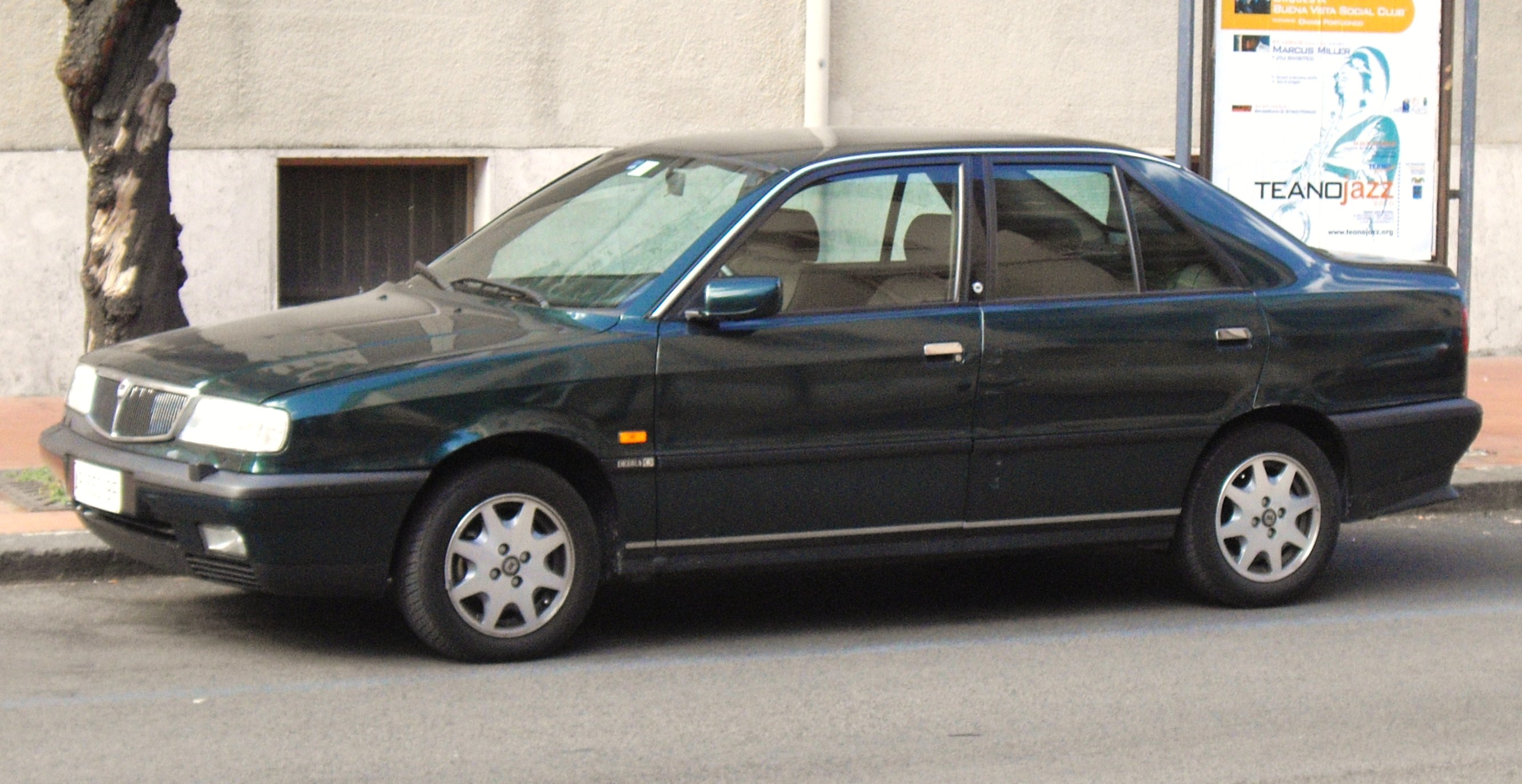 Lancia Dedra